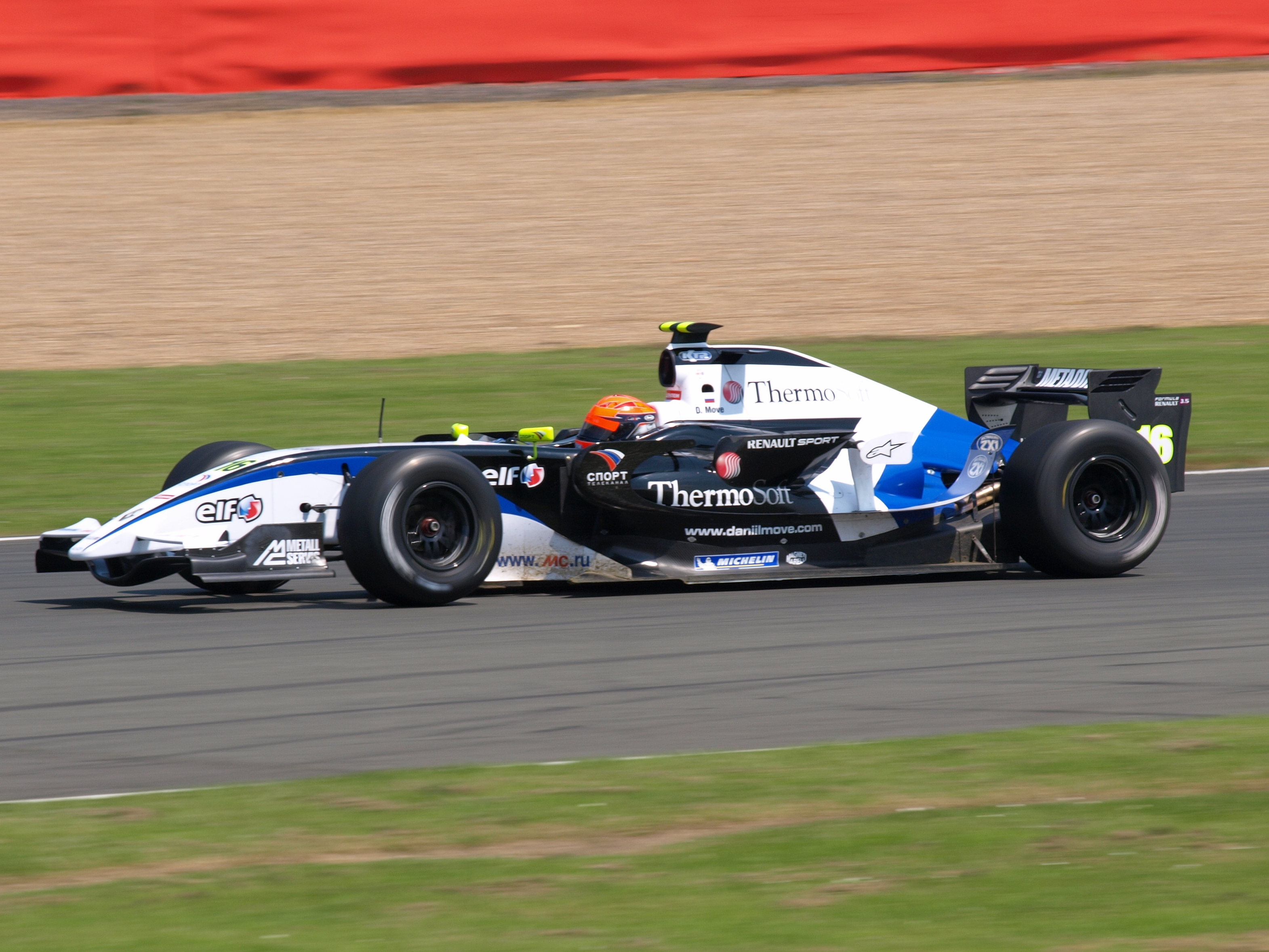 Daniil Move driving for KTR at the Silverstone round of the 2008 World Series by Renault season.